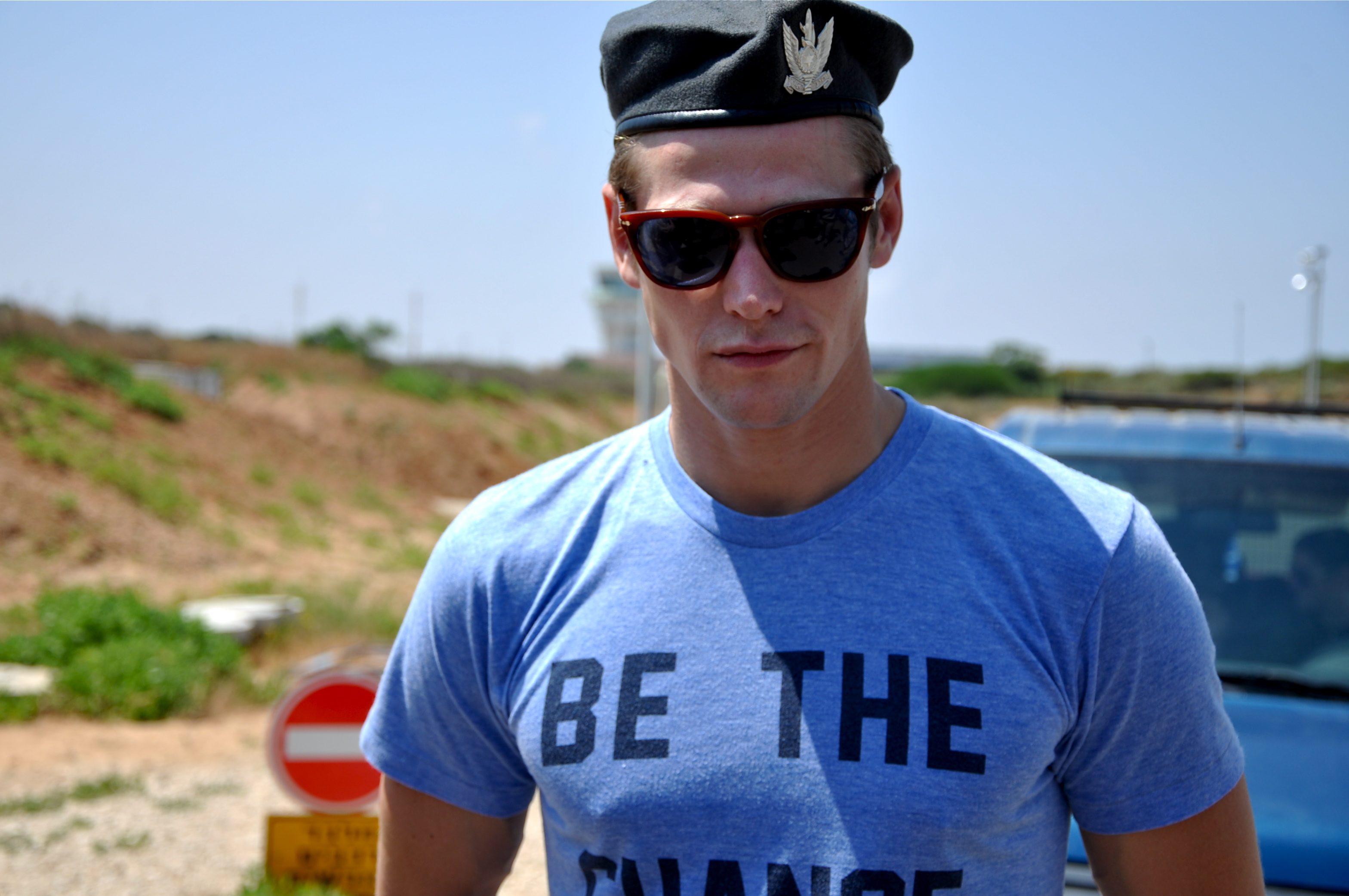 Several actors and celebrities visited the Palmachim Air Force base today, during a visit to Israel. Pictured: Zach Roerig ("The Vampire Diaries") modeling an Air Force beret. The Israel Defense Forces Facebook The Israel Defense Forces blog The Israel Defense Forces website Follow us on Twitter